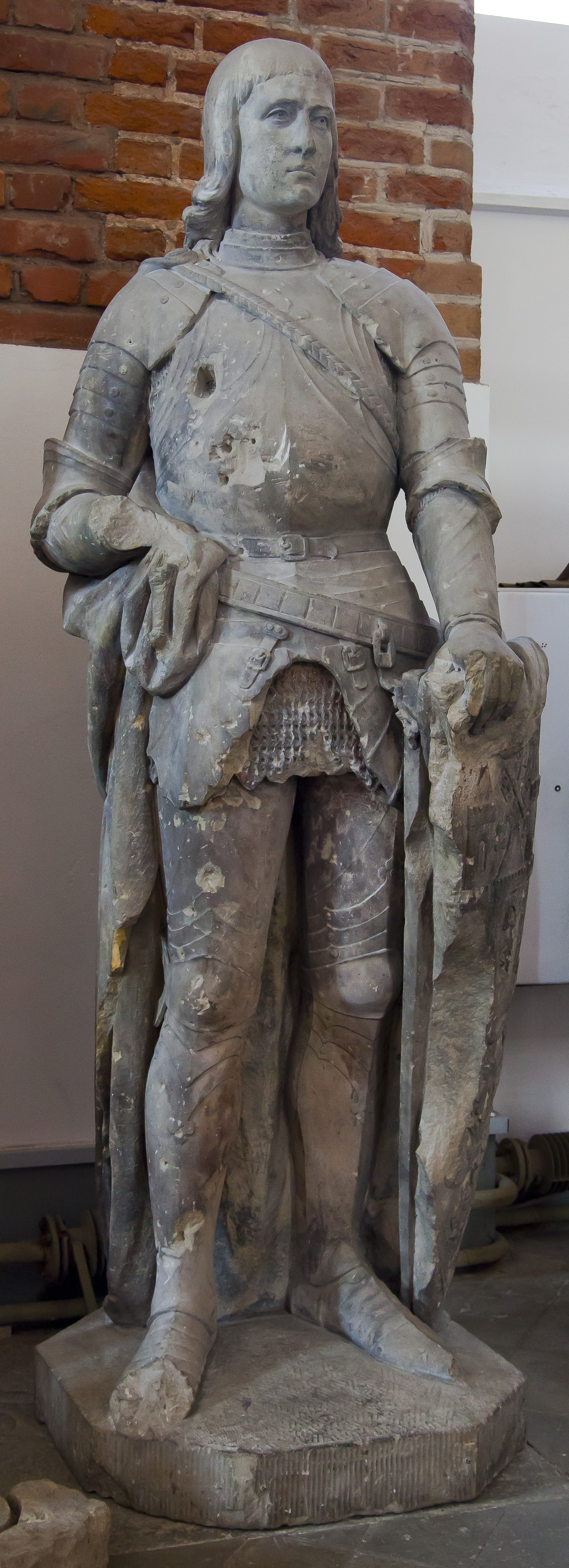 Church of Saint Peter, Riga, Latvia